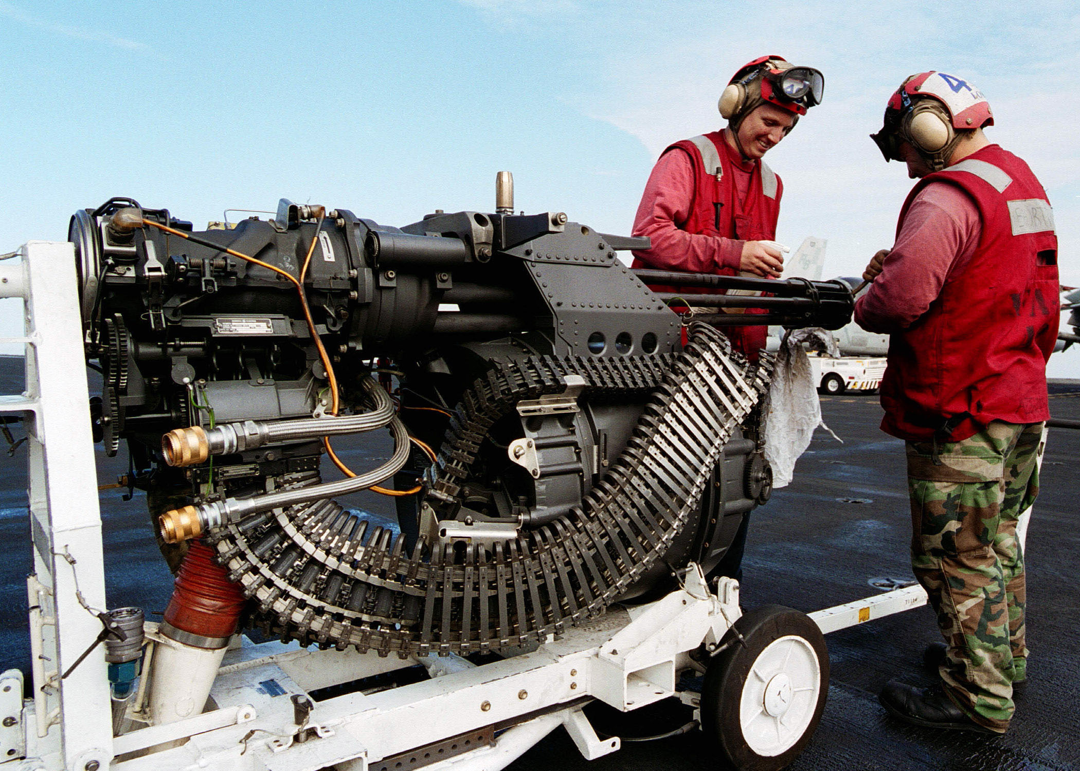 At sea aboard USS Theodore Roosevelt (CVN 71) Mar. 9, 2002 -- Aviation Ordnanceman 3rd Class John Jaggers from Vero Beach, FL, and Aviation Ordnanceman Airman William Lowe from Indianapolis, IN, both assigned to the "Sidewinders" of Strike Fighter Squadron Eight Six (VFA-86) conduct maintenance on an M61-A1 machine gun. The “Sidewinders” are embarked with Carrier Air Wing One (CVW-1) aboard the Roosevelt. The aircraft carrier is operating in the Mediterranean Sea after completing combat missions in support of Operation Enduring Freedom. U.S. Navy photo by Photographer’s Mate 3rd Class Amy DelaTorres. (RELEASED)